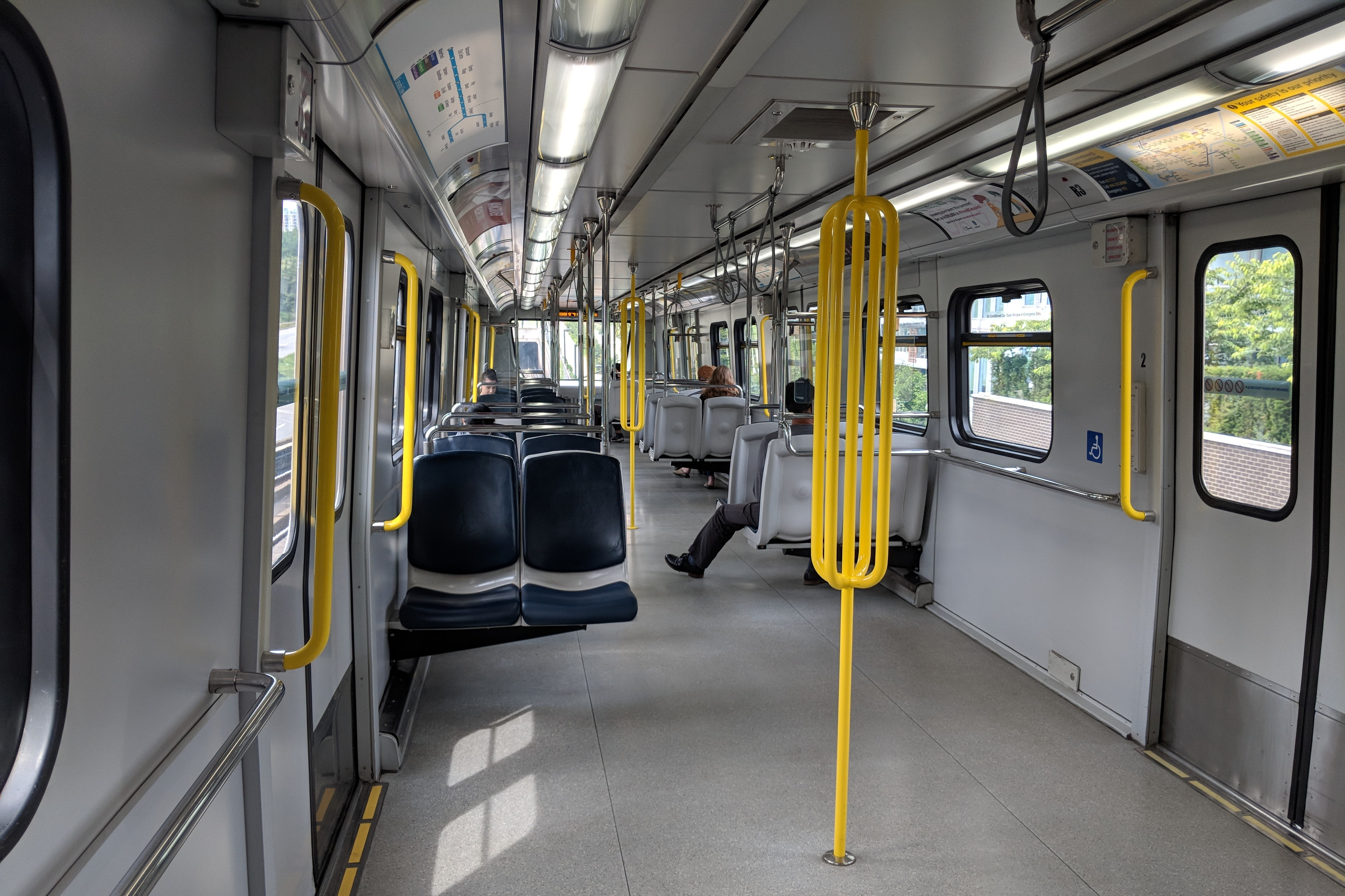 An interior shot of a Canada Line train on the SkyTrain rapid transit system in Vancouver, British Columbia, Canada during the COVID-19 pandemic. Photo taken in June 2020.